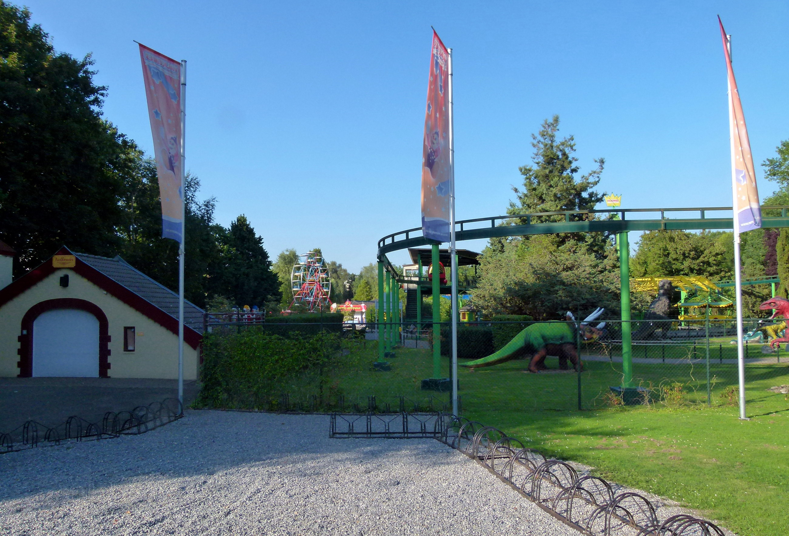 Valkenburg, Limburg, the Netherlands. Evening view of funpark De Valkenier after closing time.